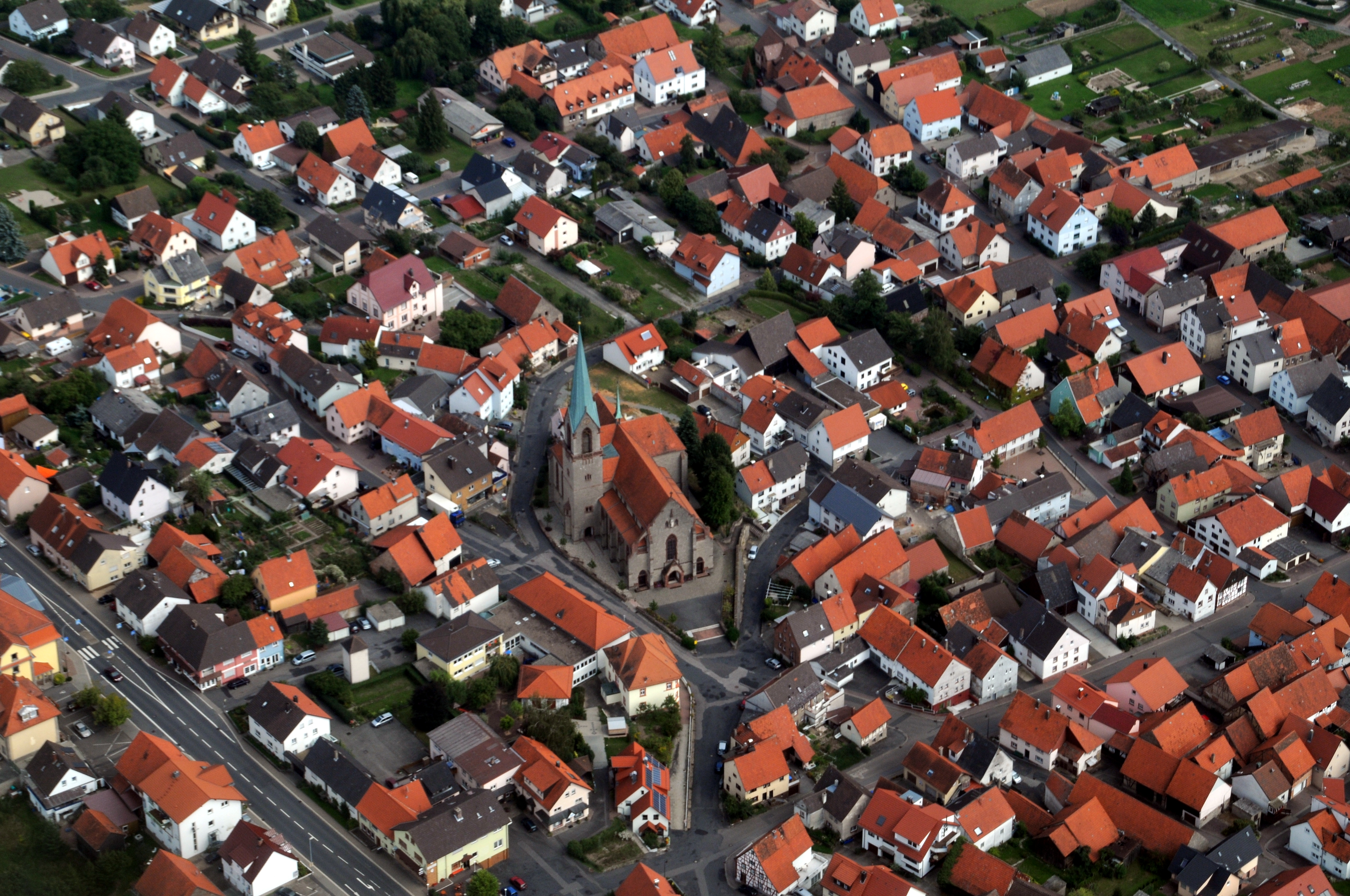 Höpfingen, Baden-Württemberg, Germany, aerial photograph